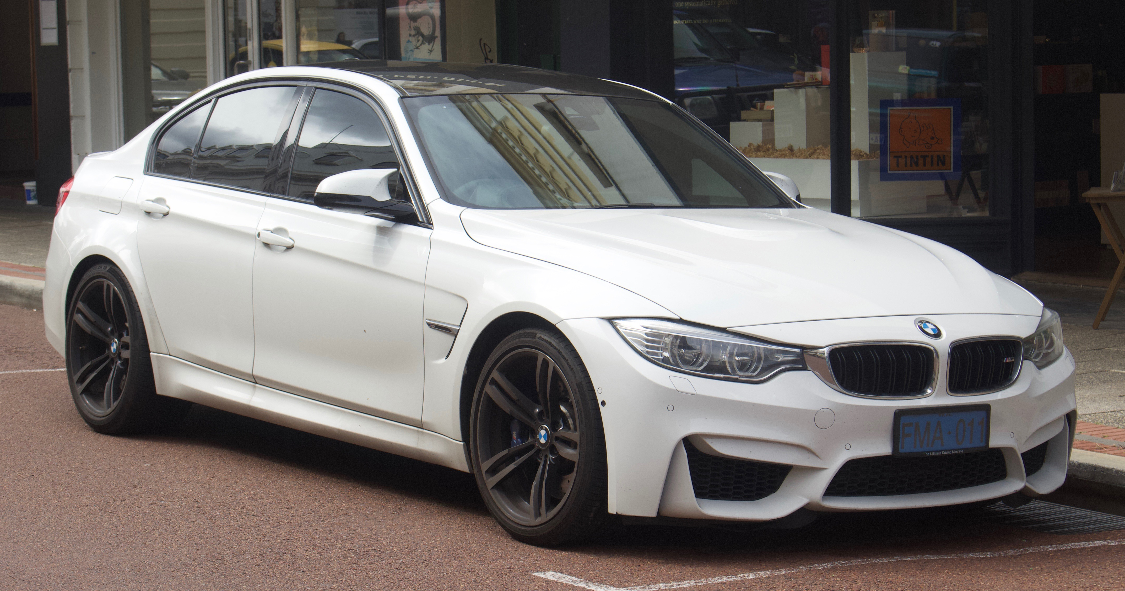 2017 BMW M3 (F80) sedan. Photographed in Fremantle, Western Australia, Australia.